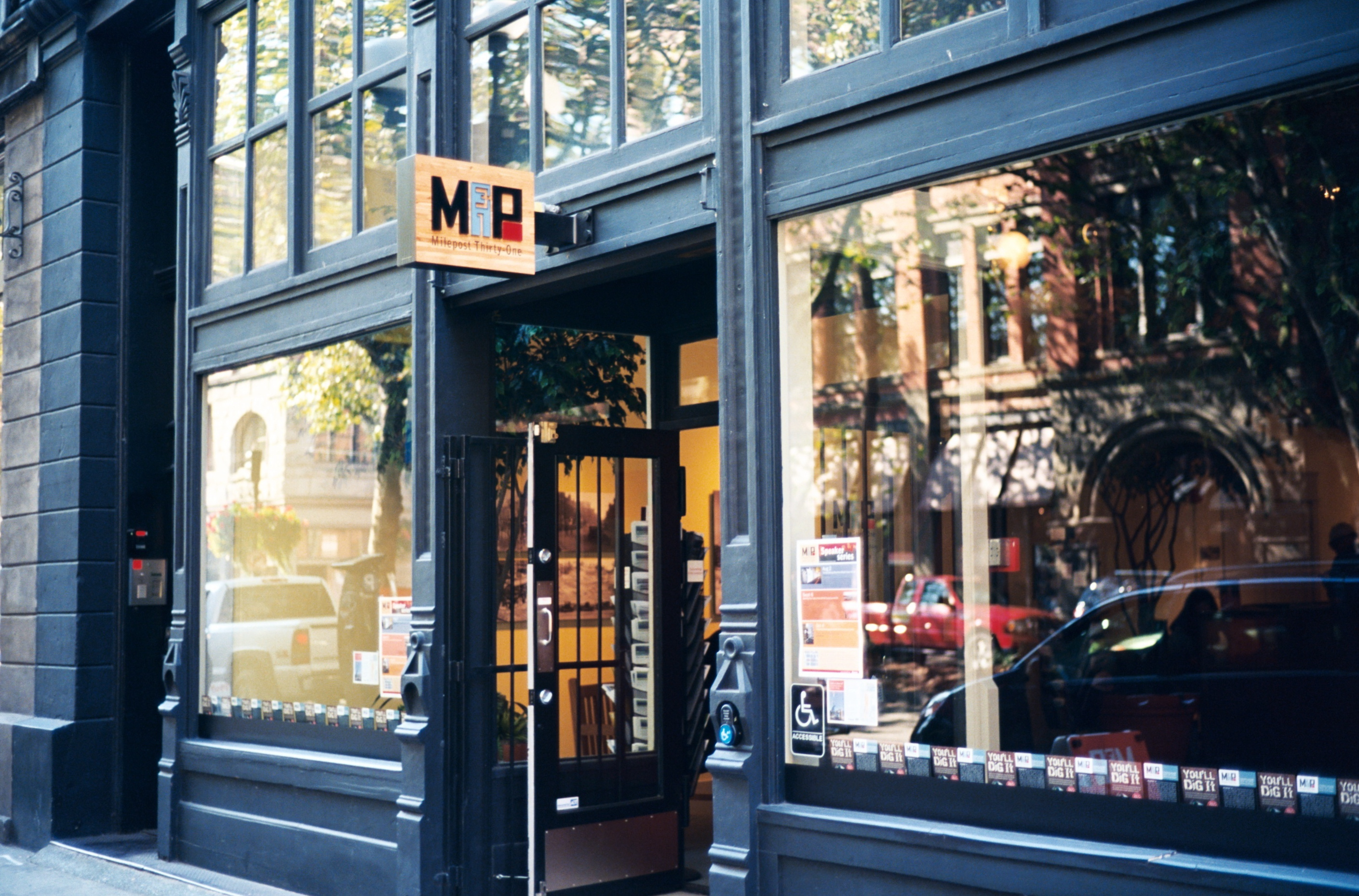 Storefront of Milepost 31, the Alaskan Way Viaduct replacement tunnel information center at 211 1st Ave. S., Seattle, Washington.